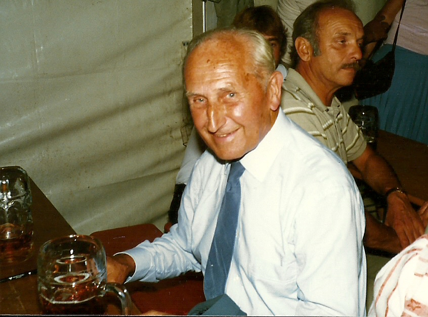 Ernst Henne at the BMW Ziehlfahrt, Munich 15-07-1983